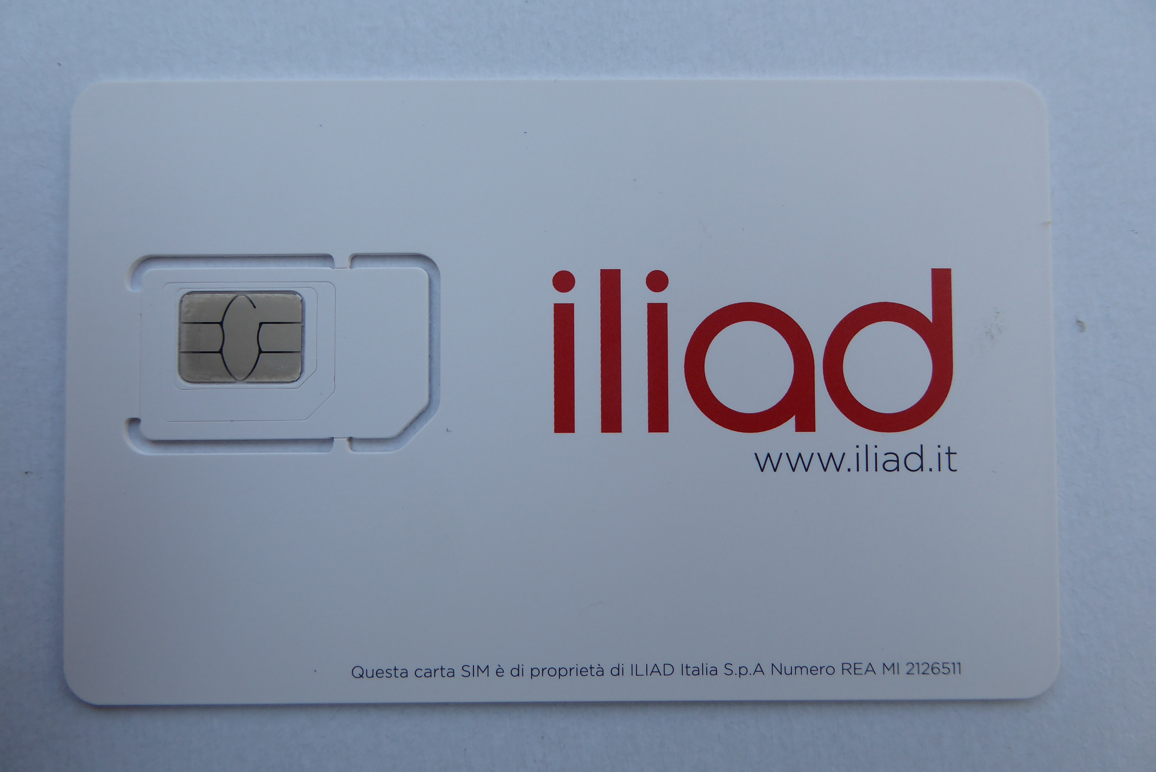 SIM of Iliad Italia.